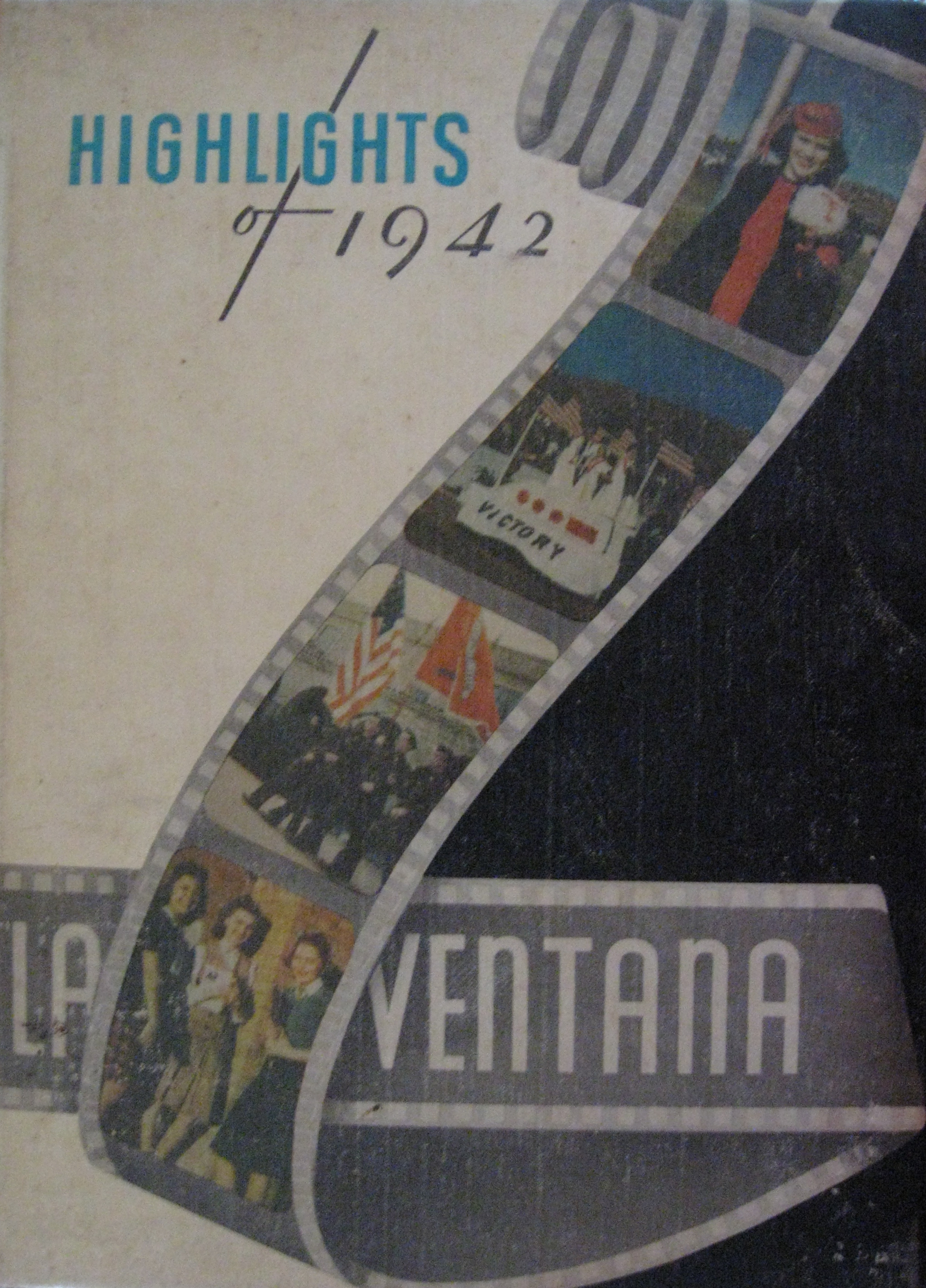 Cover of the 1940 La Ventana yearbook